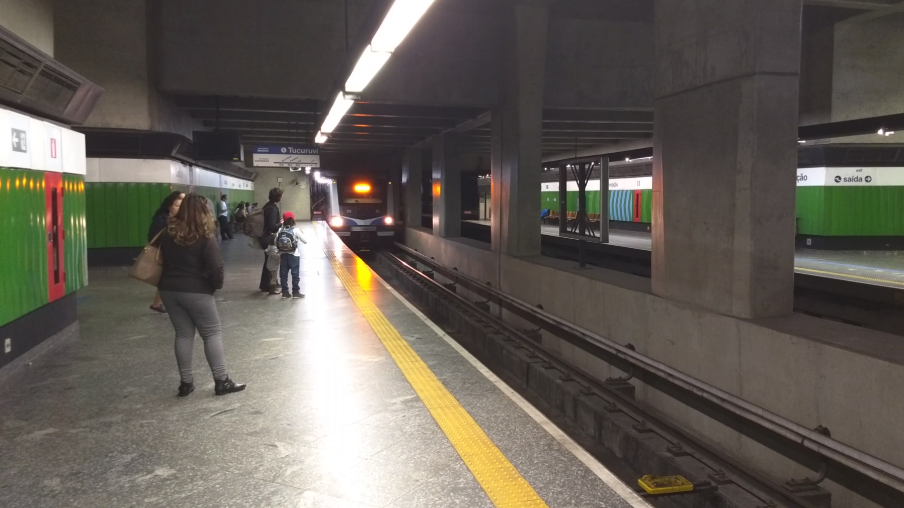 Composition arriving at the Conceição station of the São Paulo Subway.